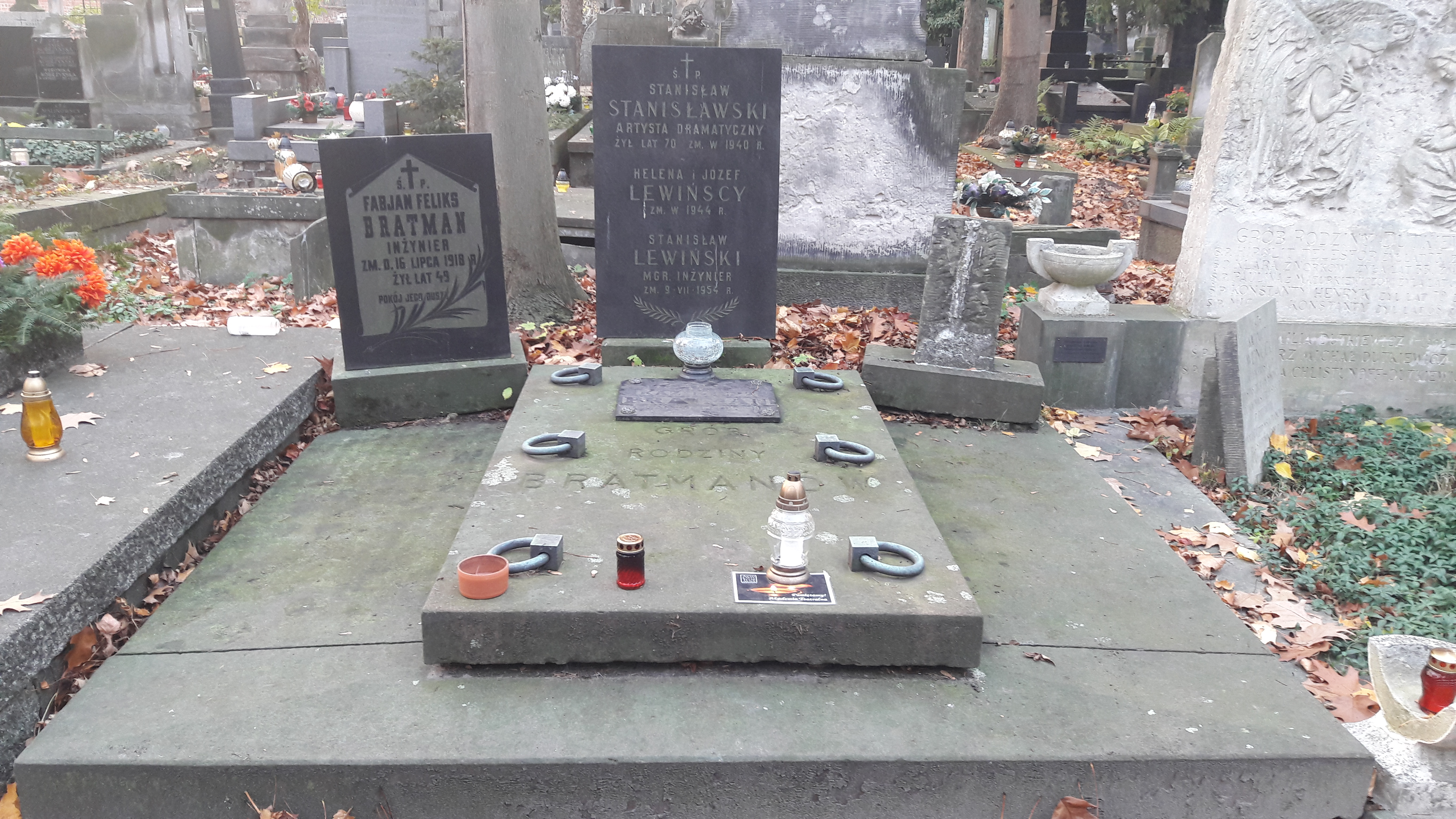 The grave of Stanisław Stanisławski at the Powązki Cemetery, section 172, row 1, grave 16